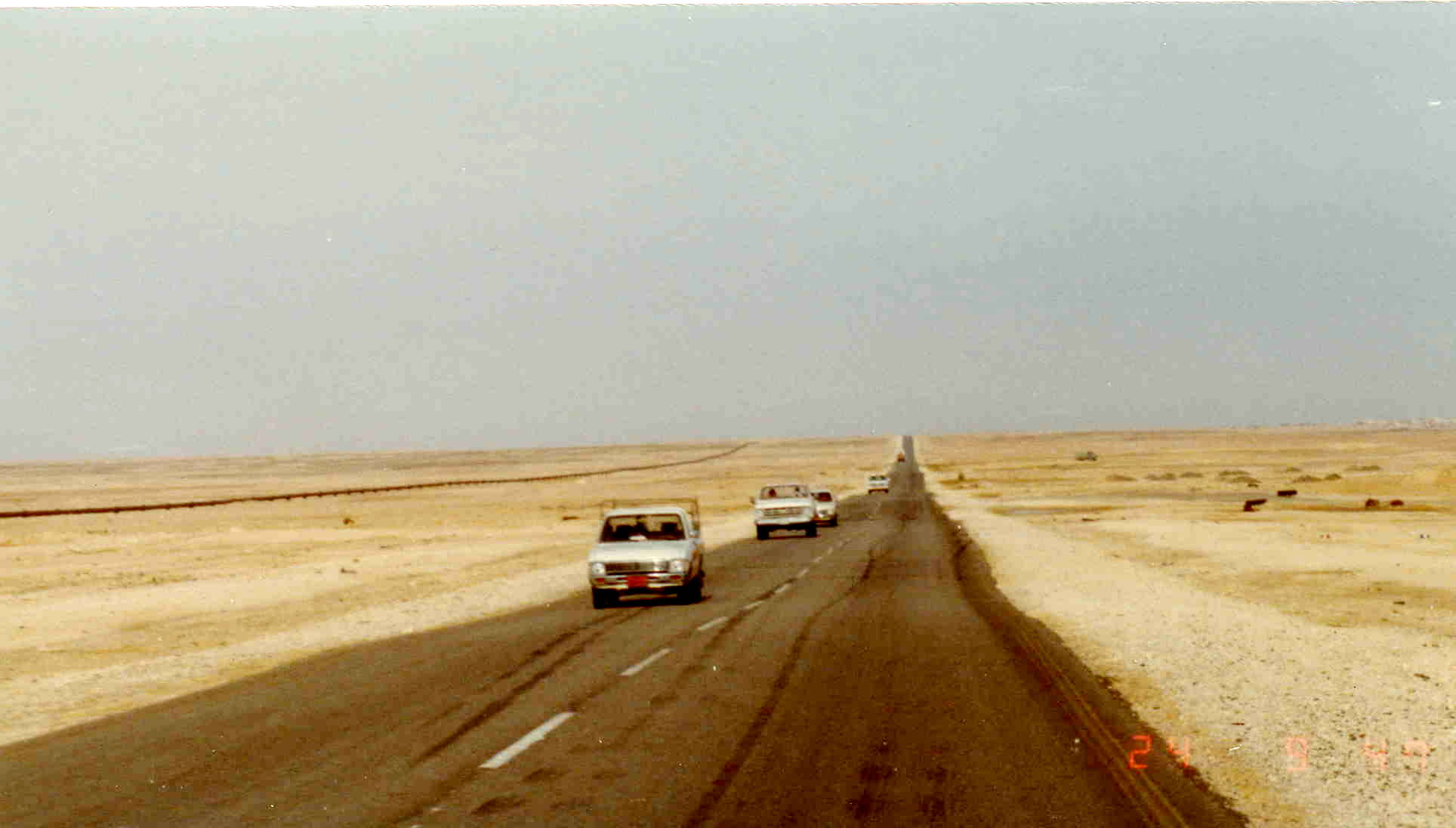 Driving along a road next to the Trans-Arabian Pipeline.